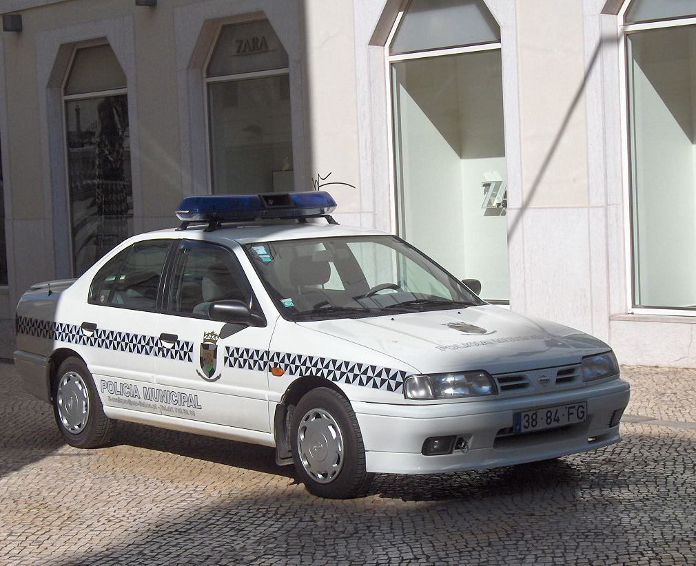 Nissan Almera of the municipal police in Lisbon, Portugal